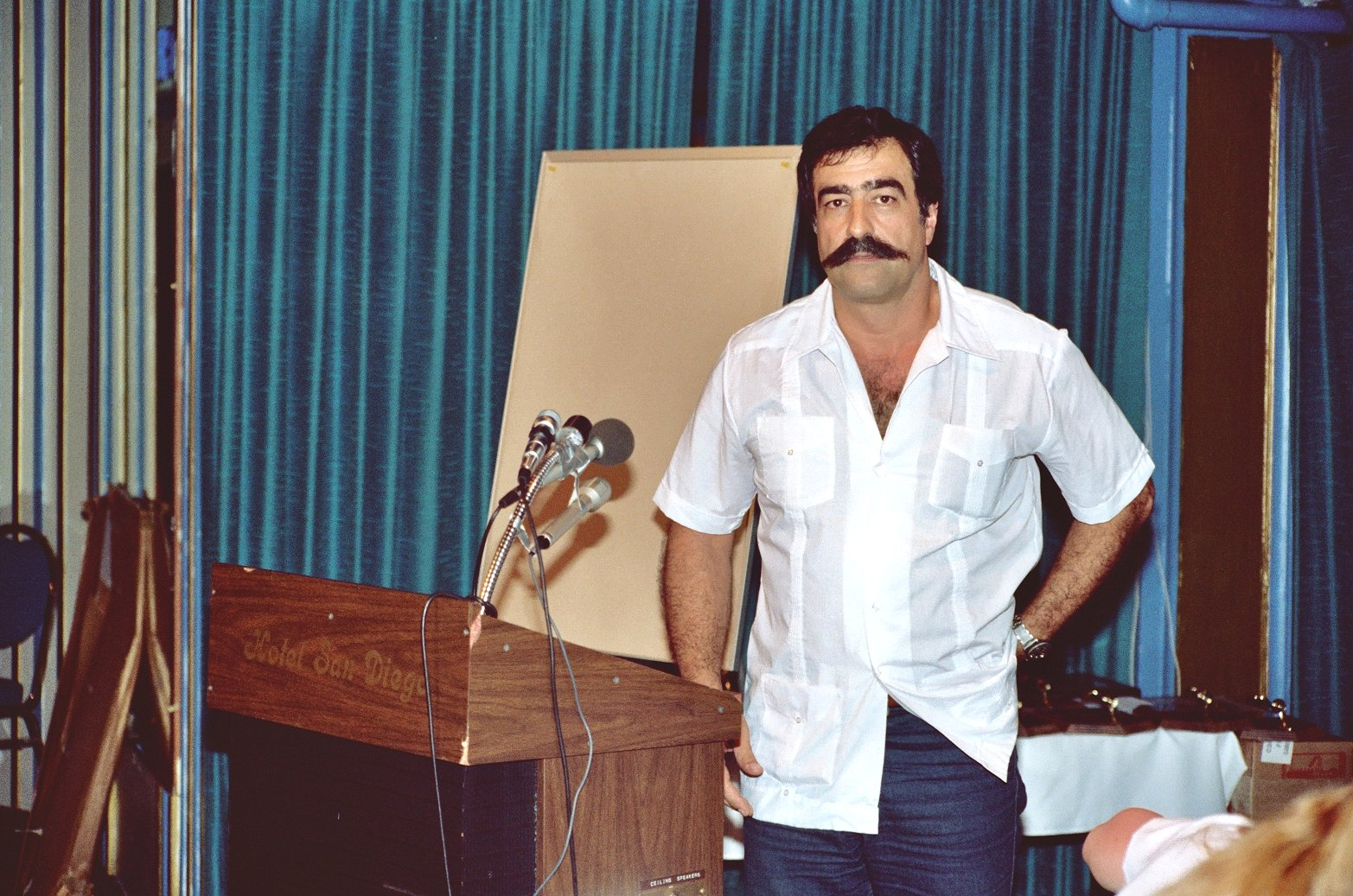 Cartoonist Sergio Aragones at the 1982 San Diego Comic Con (today called Comic-Con International).